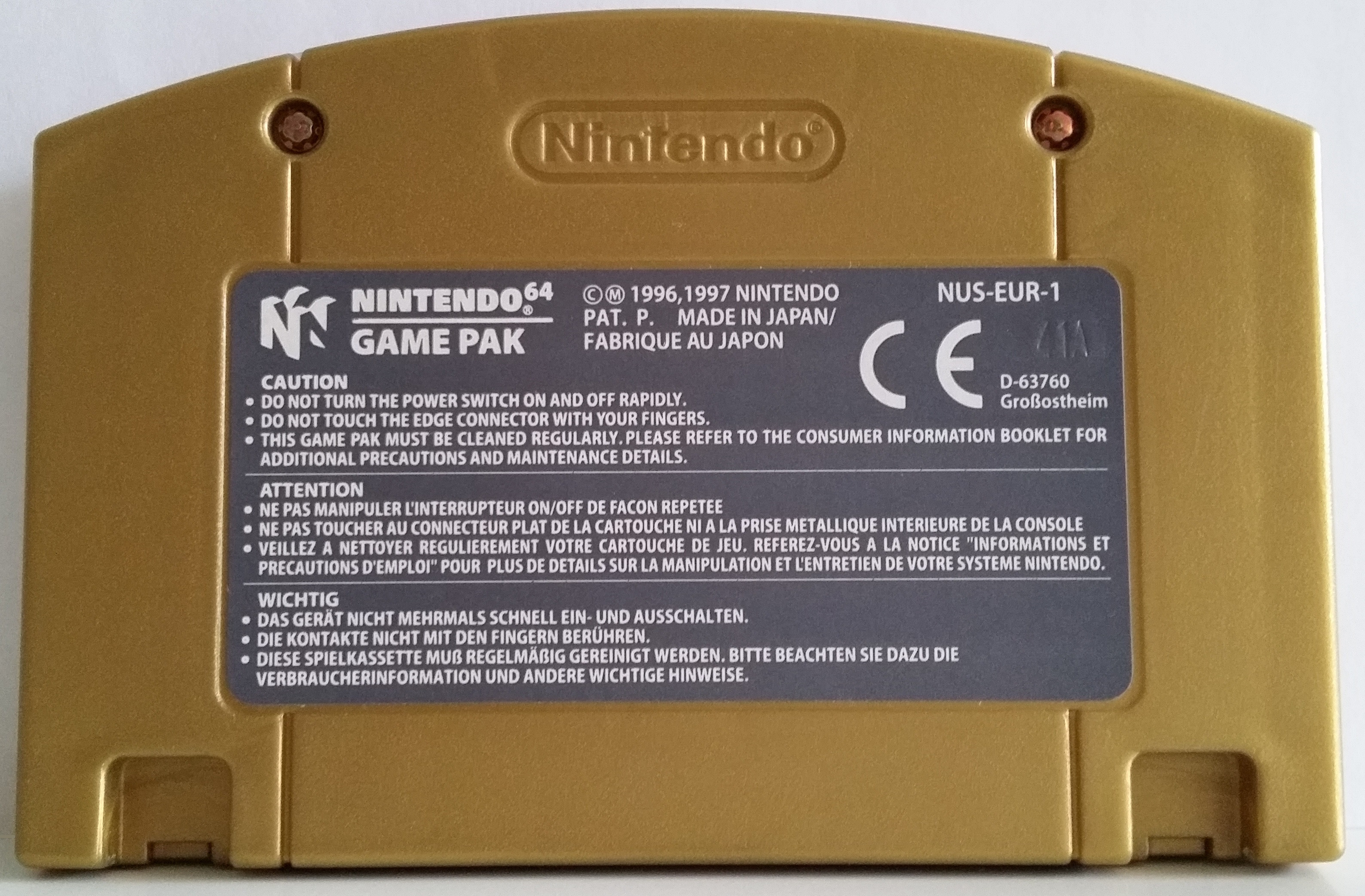 The cartridge back of a European (PAL) copy of the Nintendo 64 video game The Legend of Zelda: Majora's Mask.